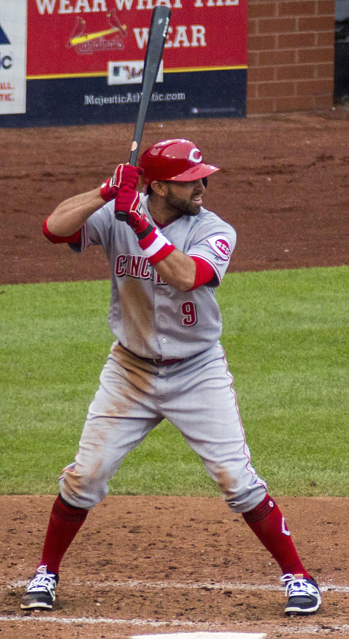 José Peraza of the Cincinnati Reds, 2017.